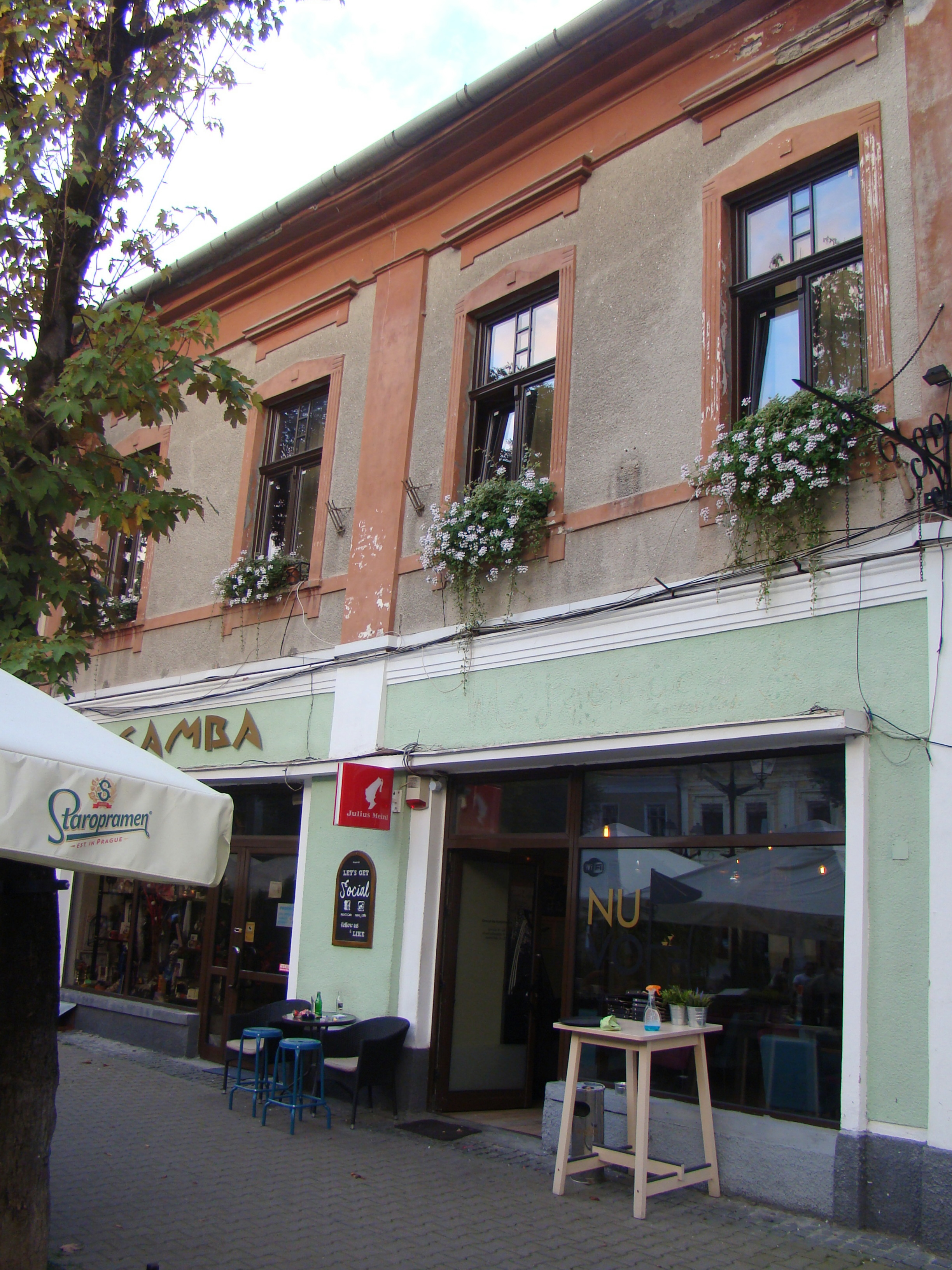 House, historic monument, in Bistrița, Liviu Rebreanu street 4